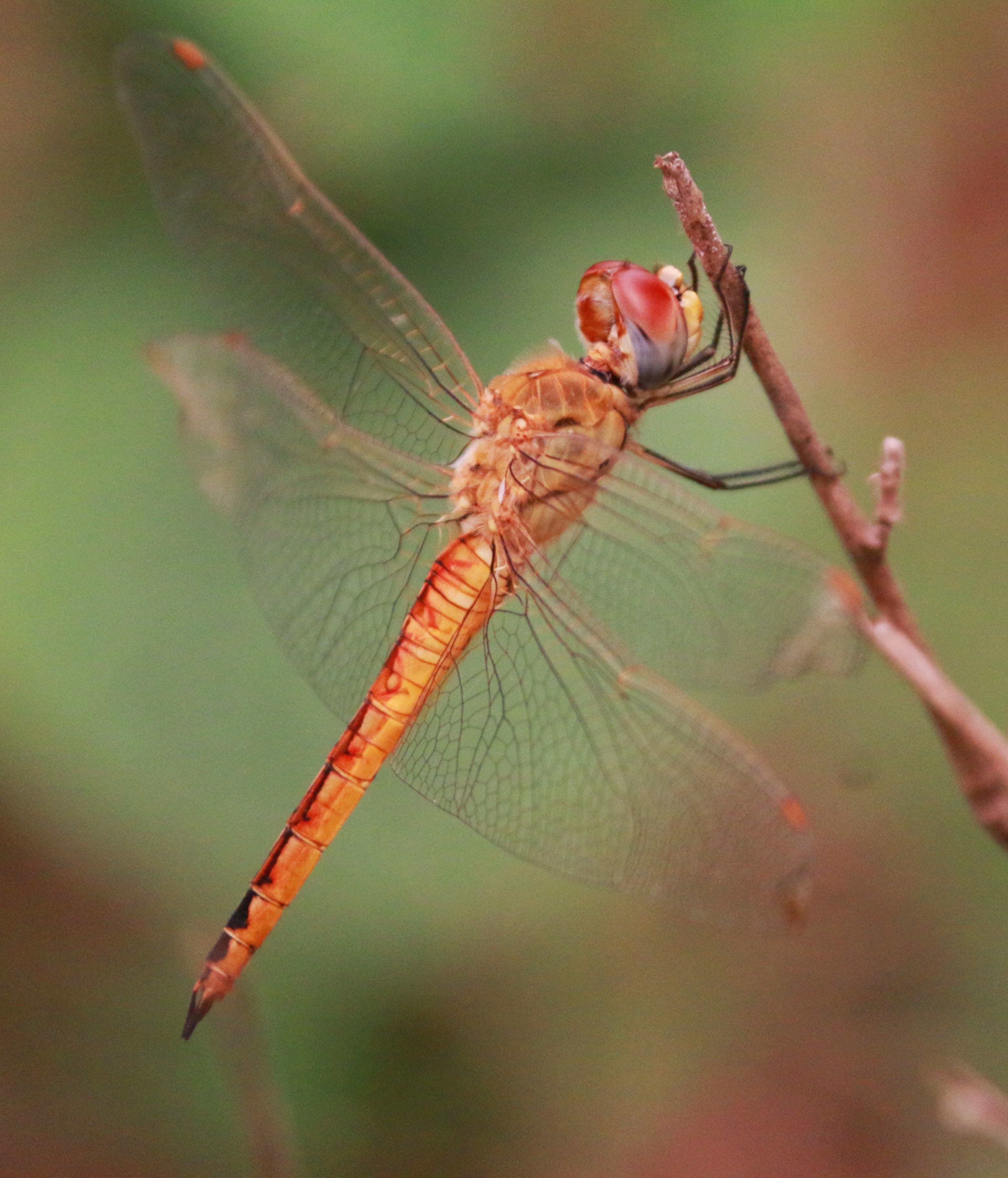 Pantala flavescens,Wandering glider